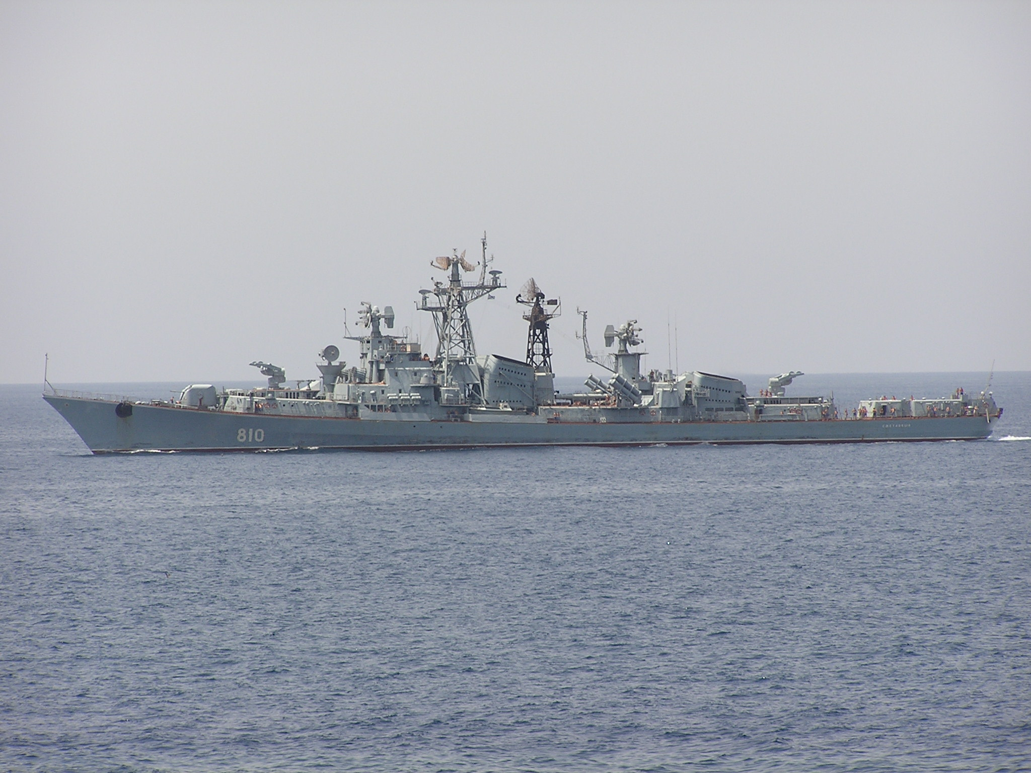 The Russian project 01090 guard ship (fomer project 61 large ASW ship, Kashin class destroyer) Smetlivyy on the Red Sea.